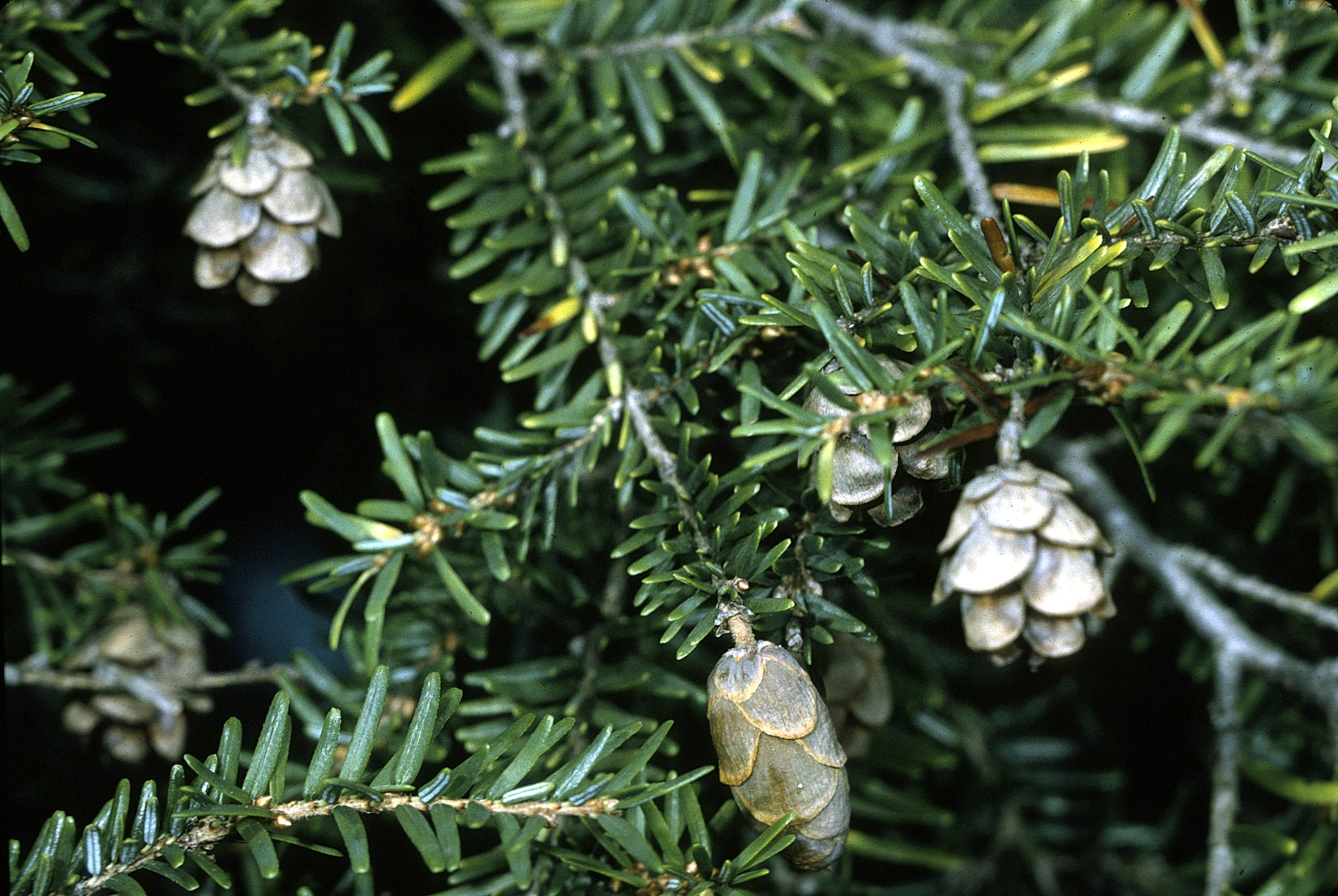 Eastern Hemlock cones.